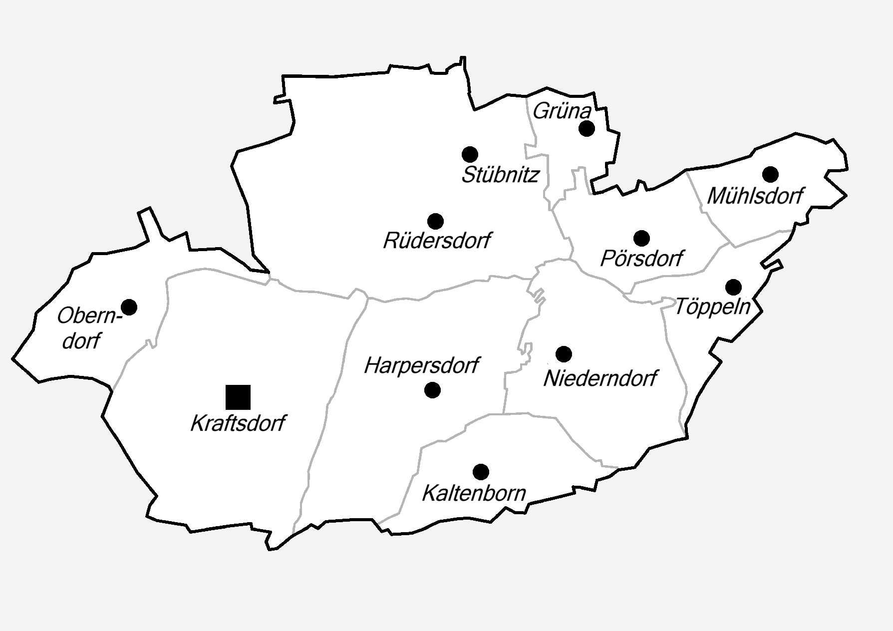 District-Maps of Kraftsdorf in Thuringia.